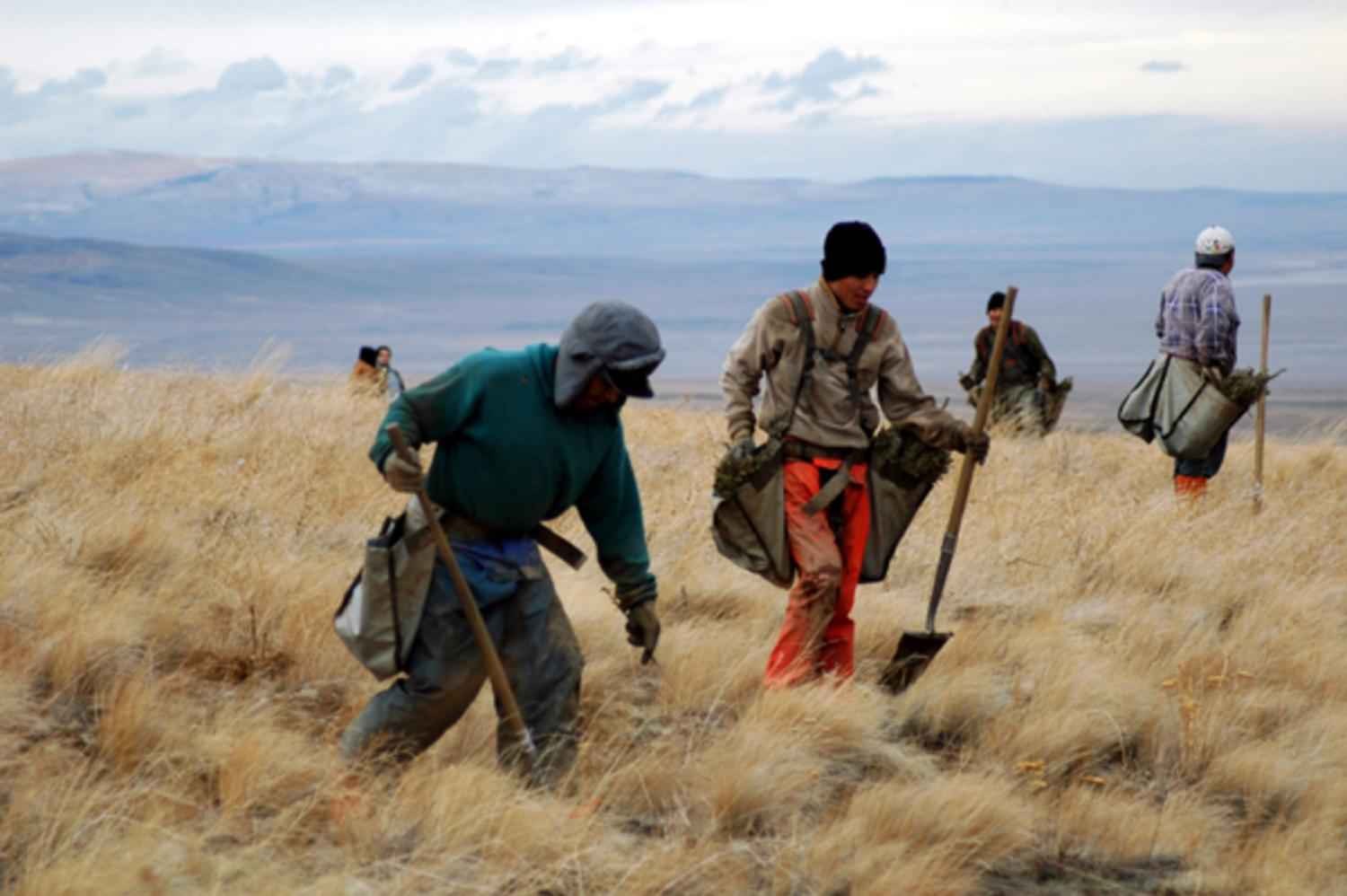 Image title: Wildfire sagebrush planting rehabilitation Image from Public domain images website